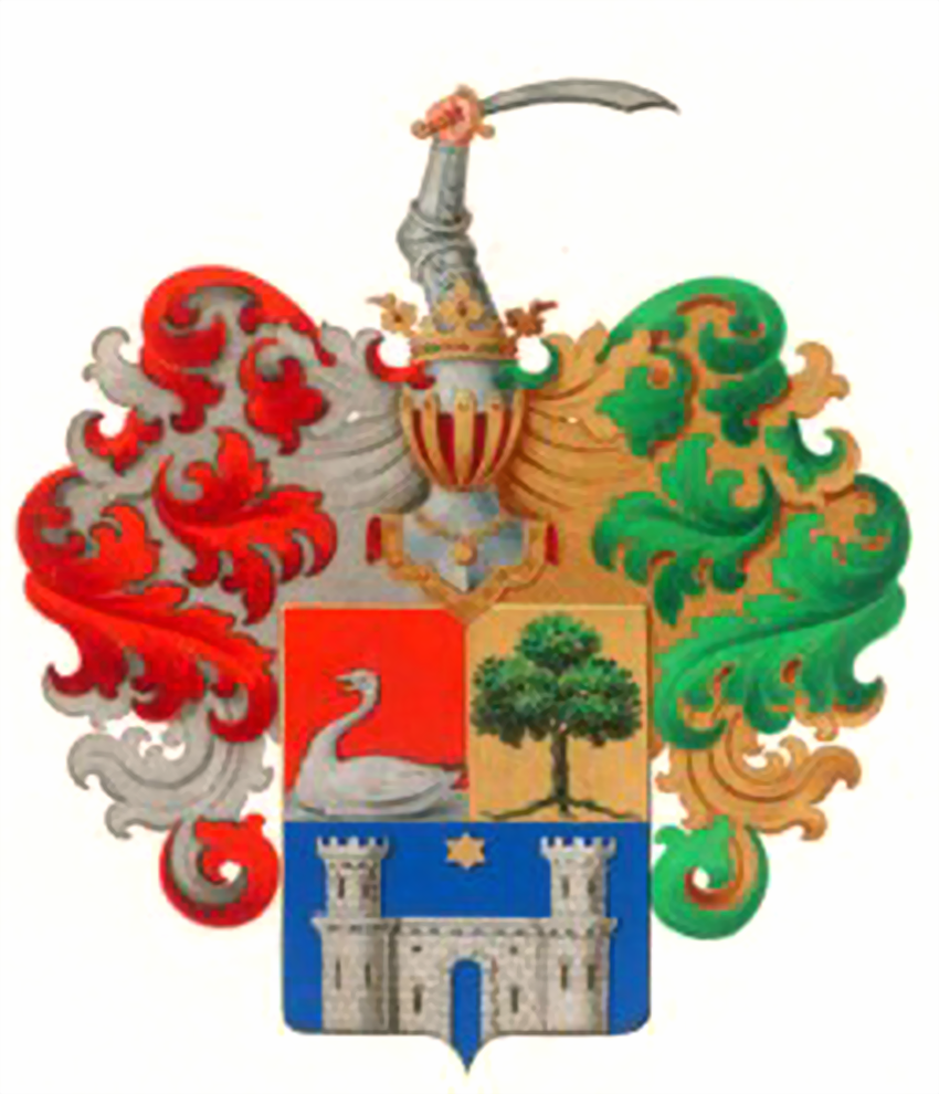 Coat of Arms of family Kutorga